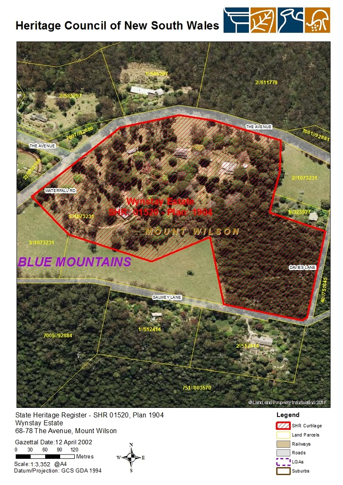 Wynstay Estate: SHR Plan 1904